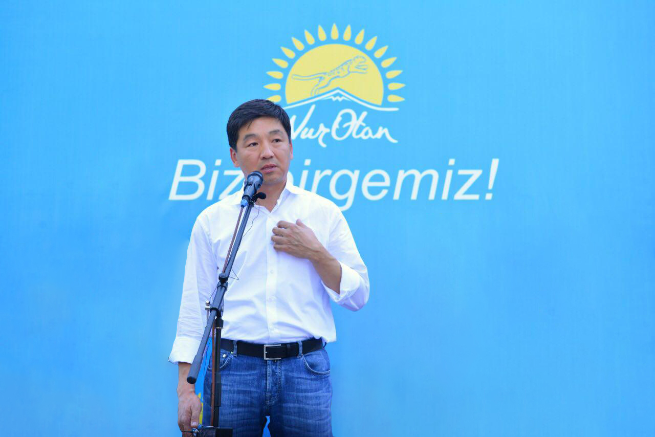 Bauyrzhan Baibek